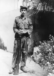 Comandante_Efigenio_Ameijeiras